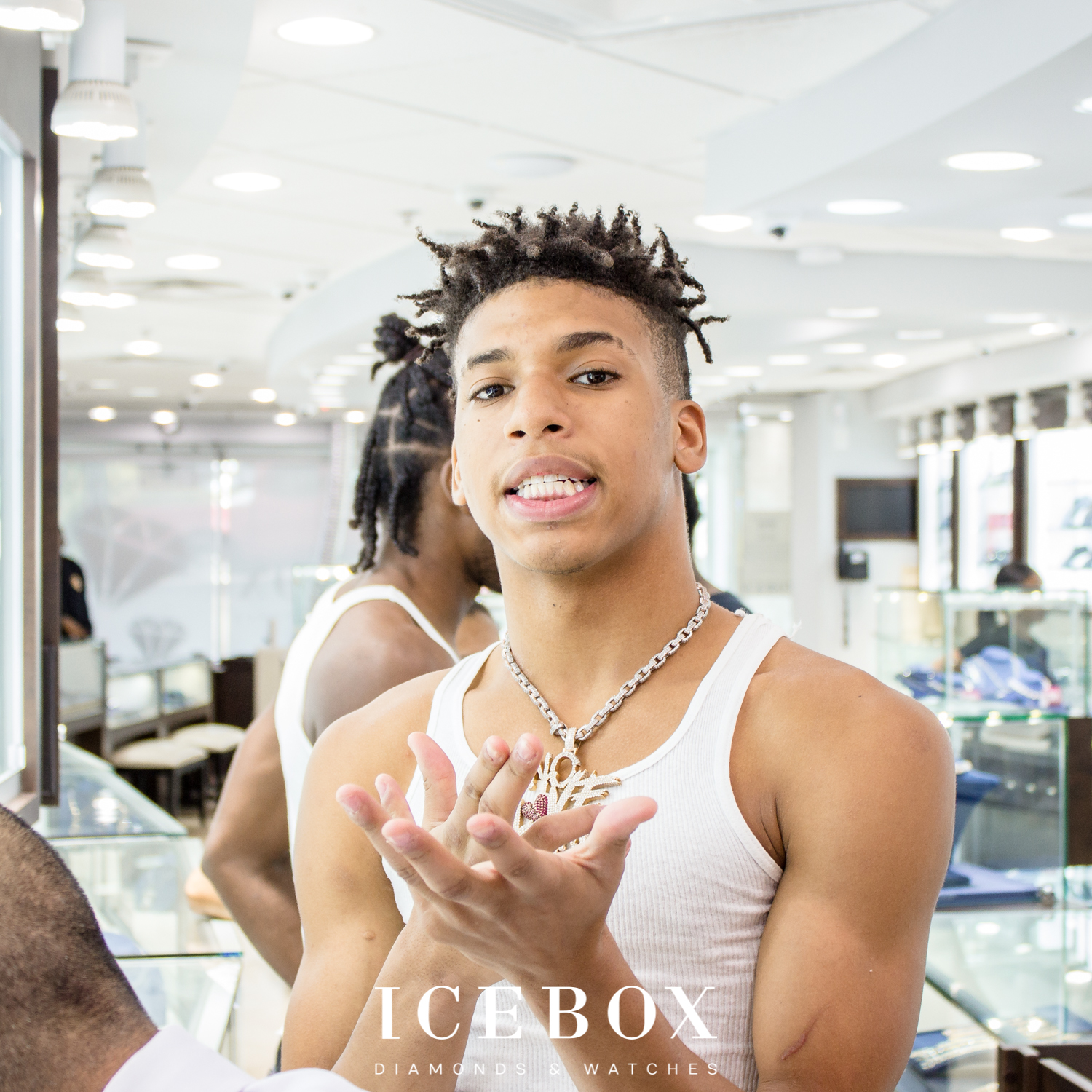 NLE Choppa at Icebox in 2019